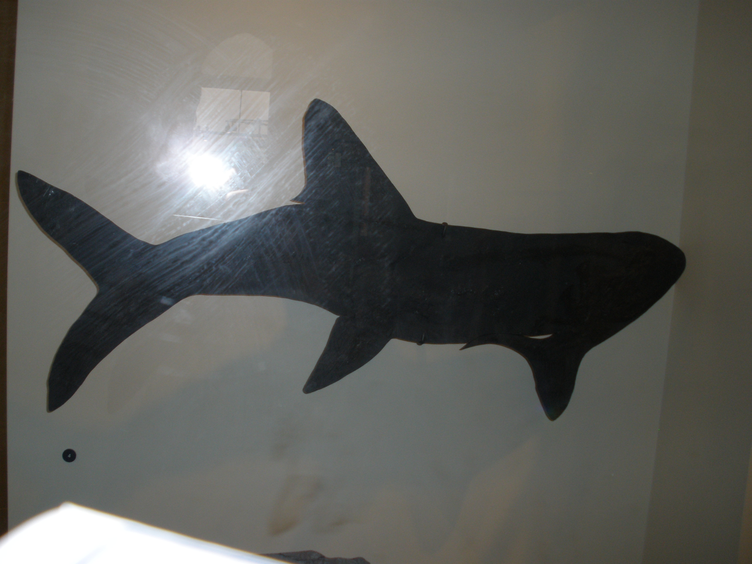 fossil of Symmorium, an extinct shark